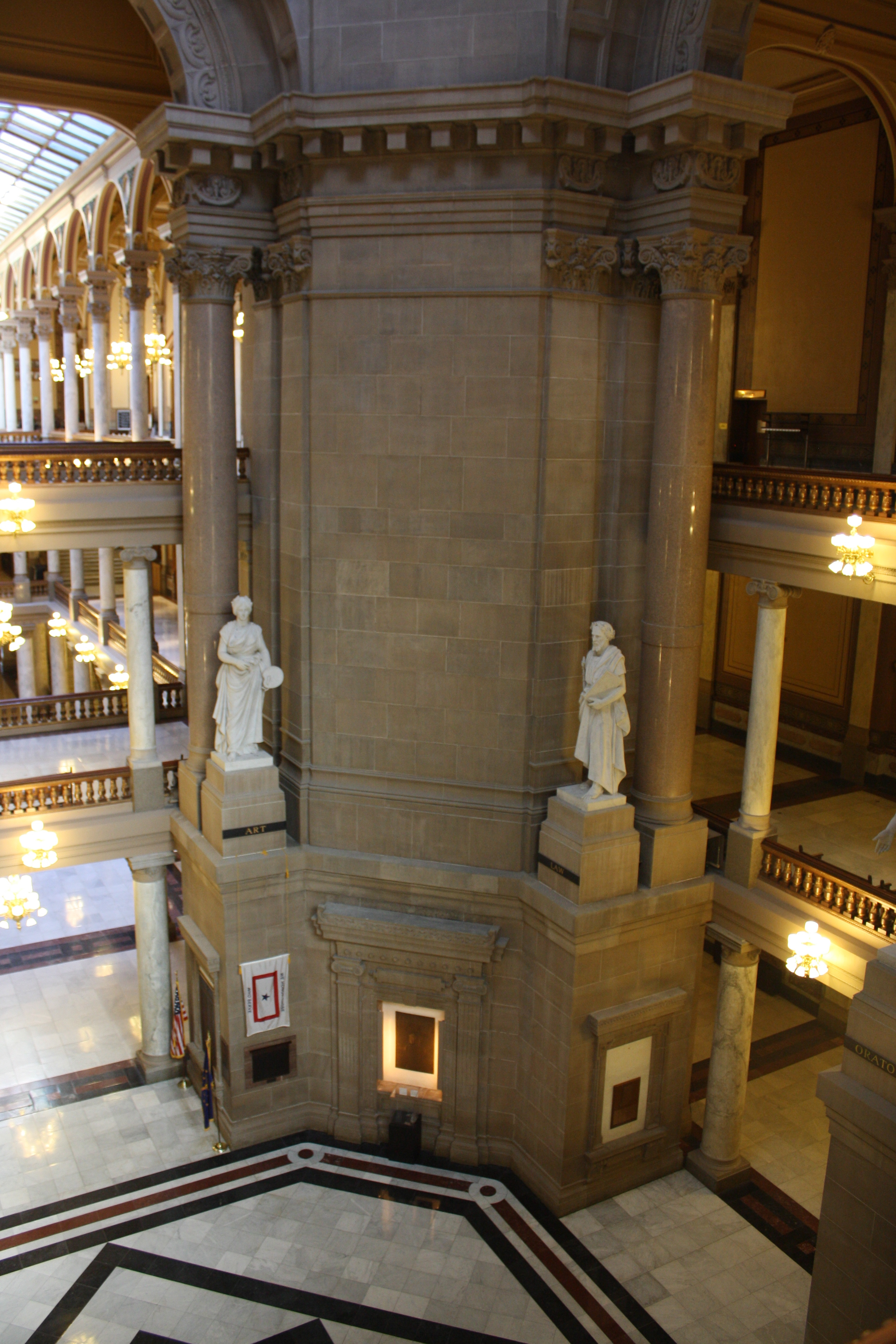 View of Indiana State House Rotunda (northeast)